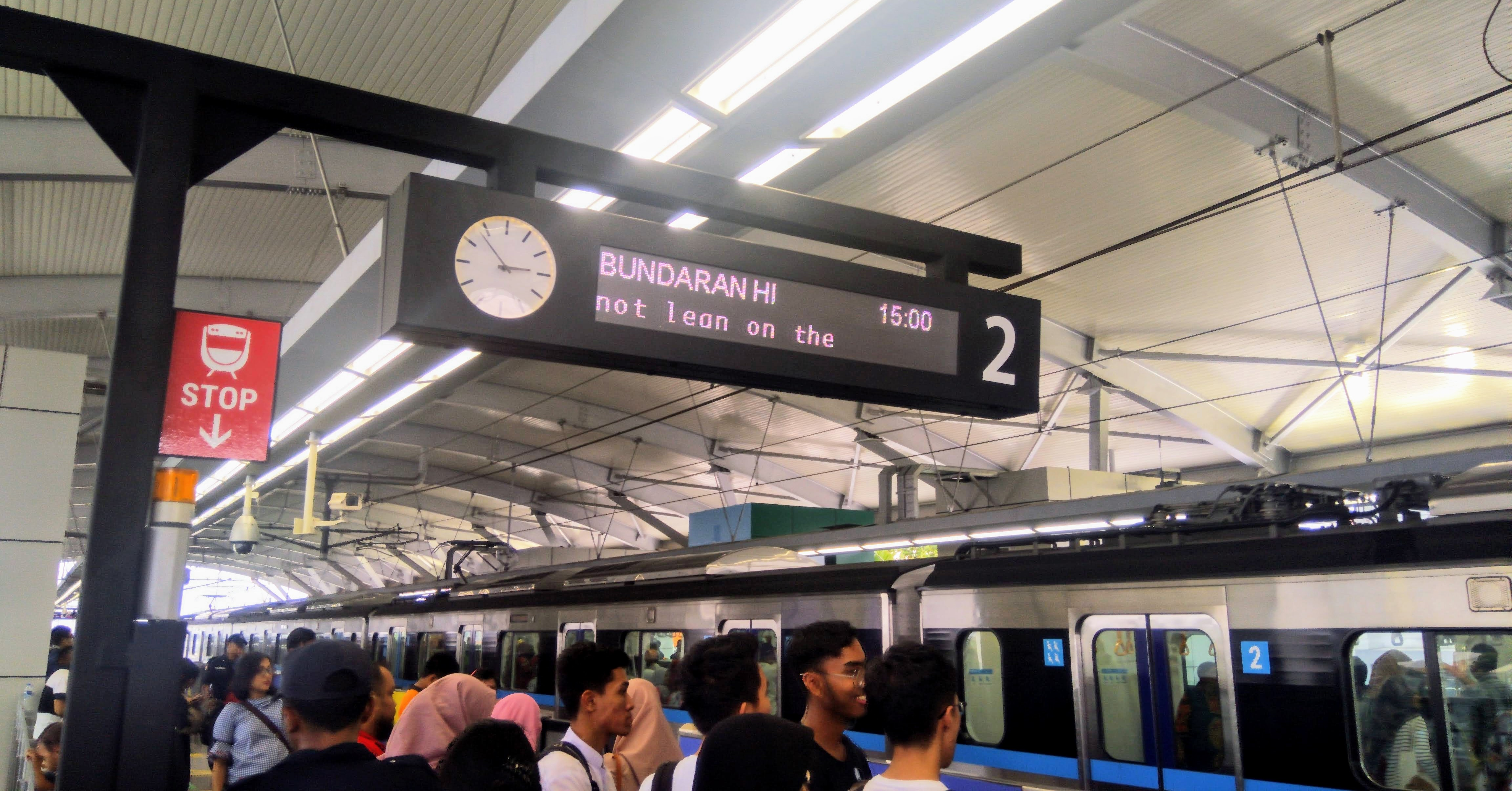 Jakarta MRT passengers waiting for the train at Lebak Bulus, with destination to Bundaran HI